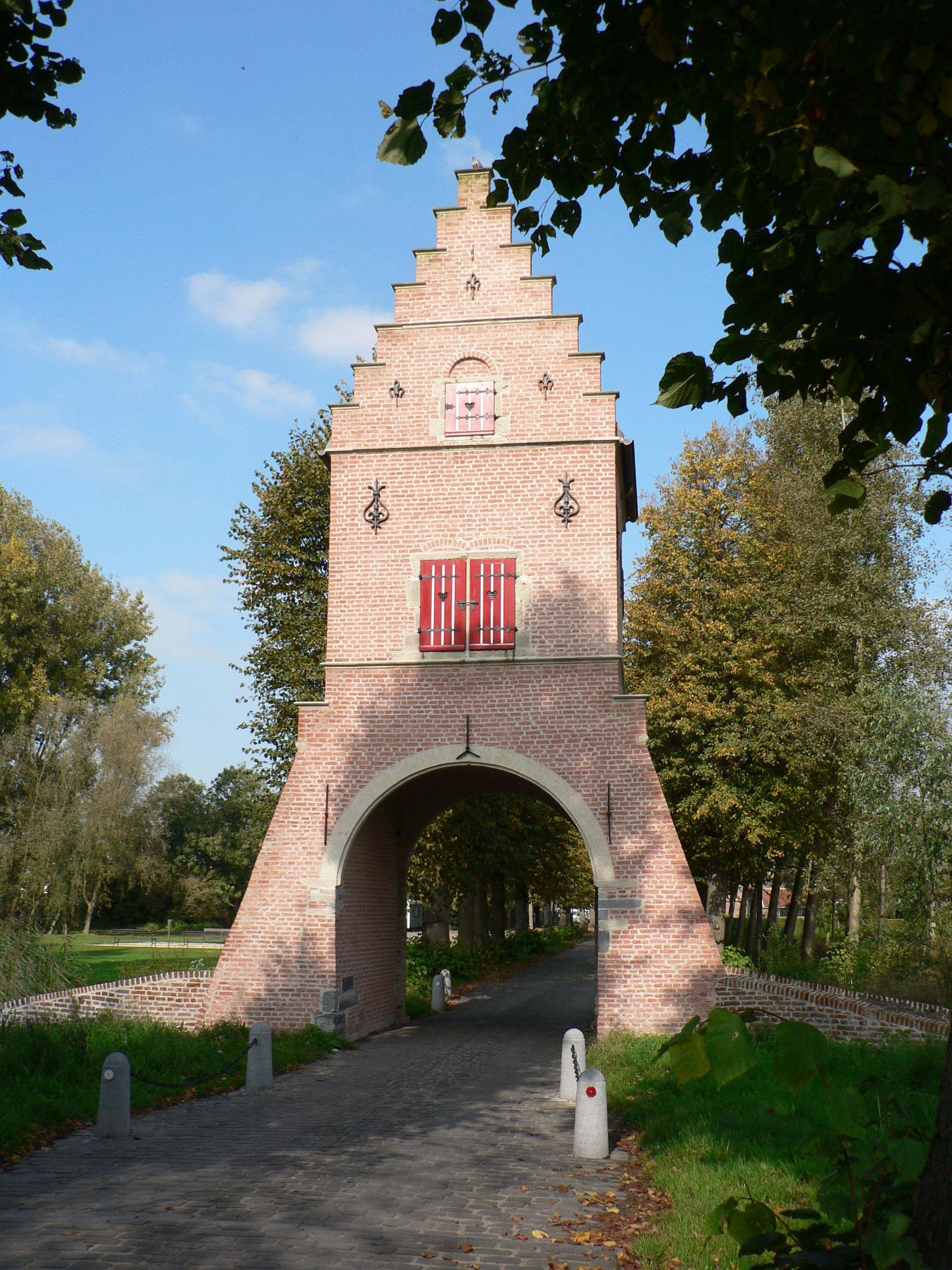 Access gate to Castle of Ooidonk